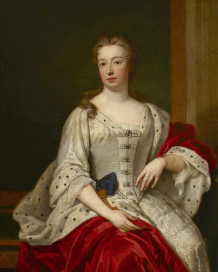 Lady Elizabeth Percy (1667-1722) daughter and sole heiress of Joceline Percy, 11th Earl of Northumberland (1644-1670) of Petworth House, Sussex, and wife of Charles Seymour, 6th Duke of Somerset (1662-1748) of Petworth House. 1713 portrait Godfrey Kneller (1646/9-1723), signed and dated. On loan from the Egremont Private Collection of Lord Egremont and Leconfield of Petworth Houser to Collection of National Trust, Petworth House.